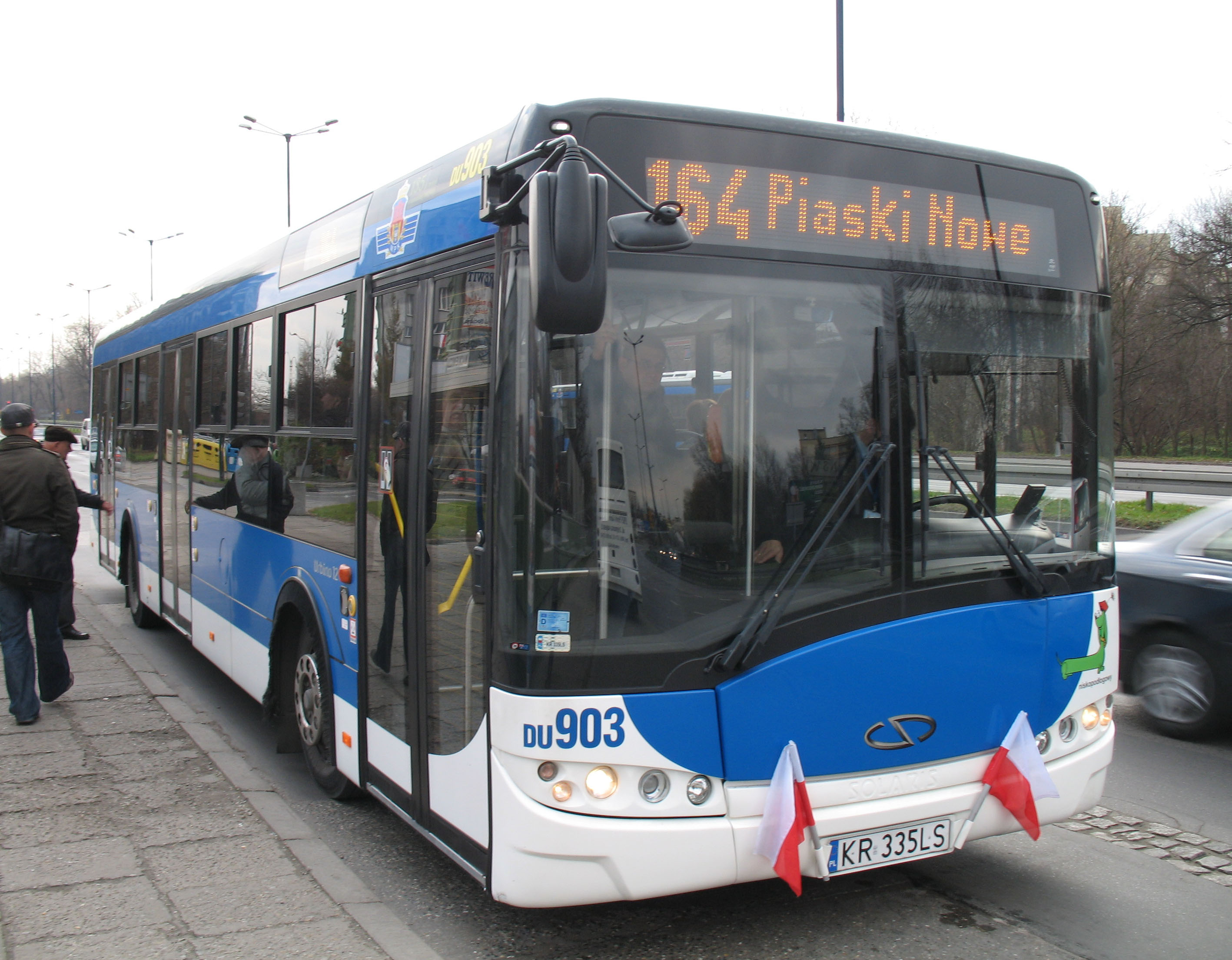 Solaris Urbino 12 W29 bus (#DU903) in Kraków, Poland. Built 2009, MPK Kraków operator.